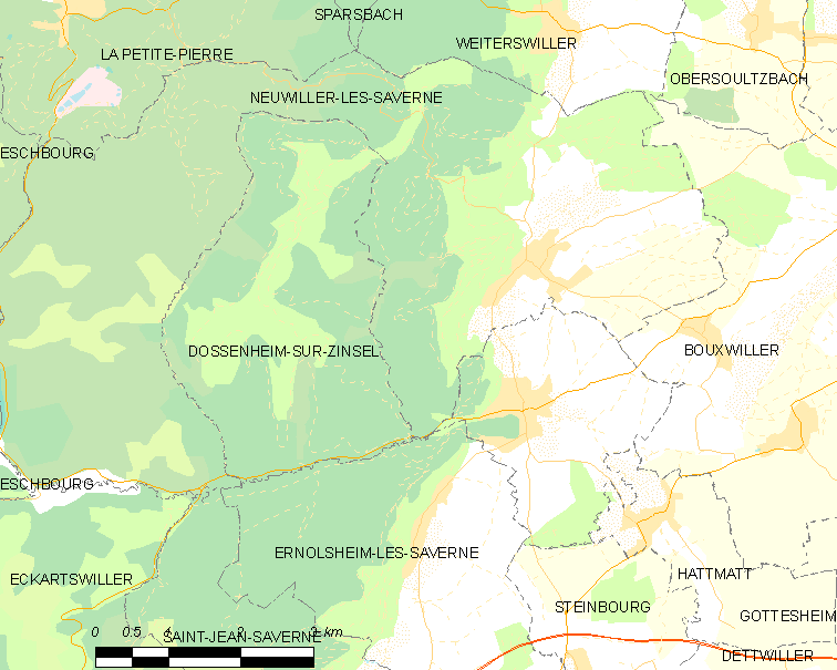 Map of French municipality